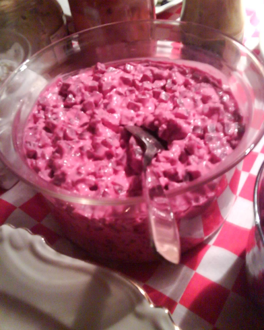 A bowl of beetroot salad.